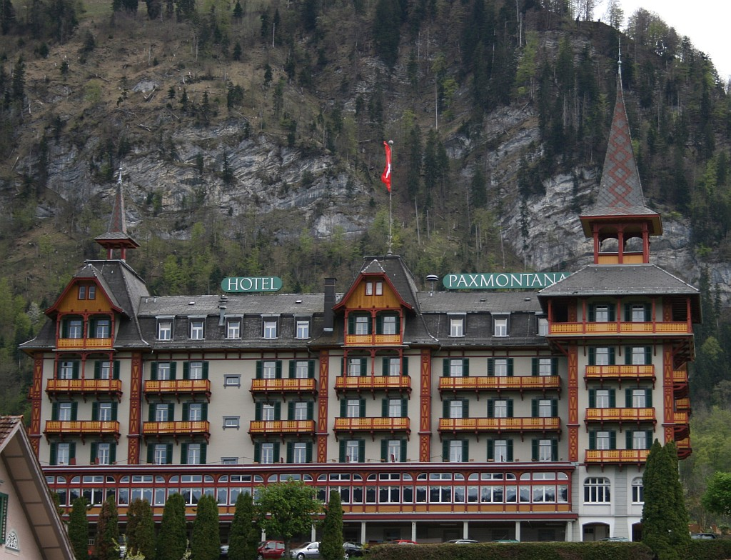 Art Nouveau hotel "Paxmontana" in Flüeli-Ranft, Switzerland; face view